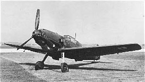 A Messerschmitt Bf 109E-3 at Wright Field, Ohio (USA) on 14 May 1942. This aircraft had been captured by the French in September 1939. It was taken to the flight test center at Bricy near Orleans. After the conclusion of the tests it was sent to the RAF Aeroplane & Armament Experimental Establishment, RAF Boscombe Down, Wiltshire (UK). Designated "AE479", it arrived at Boscombe Down on 3 May 1940. In 1942 it was tested by the USAAF.